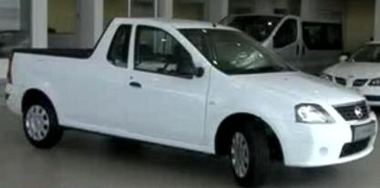 2008 Nissan NP200